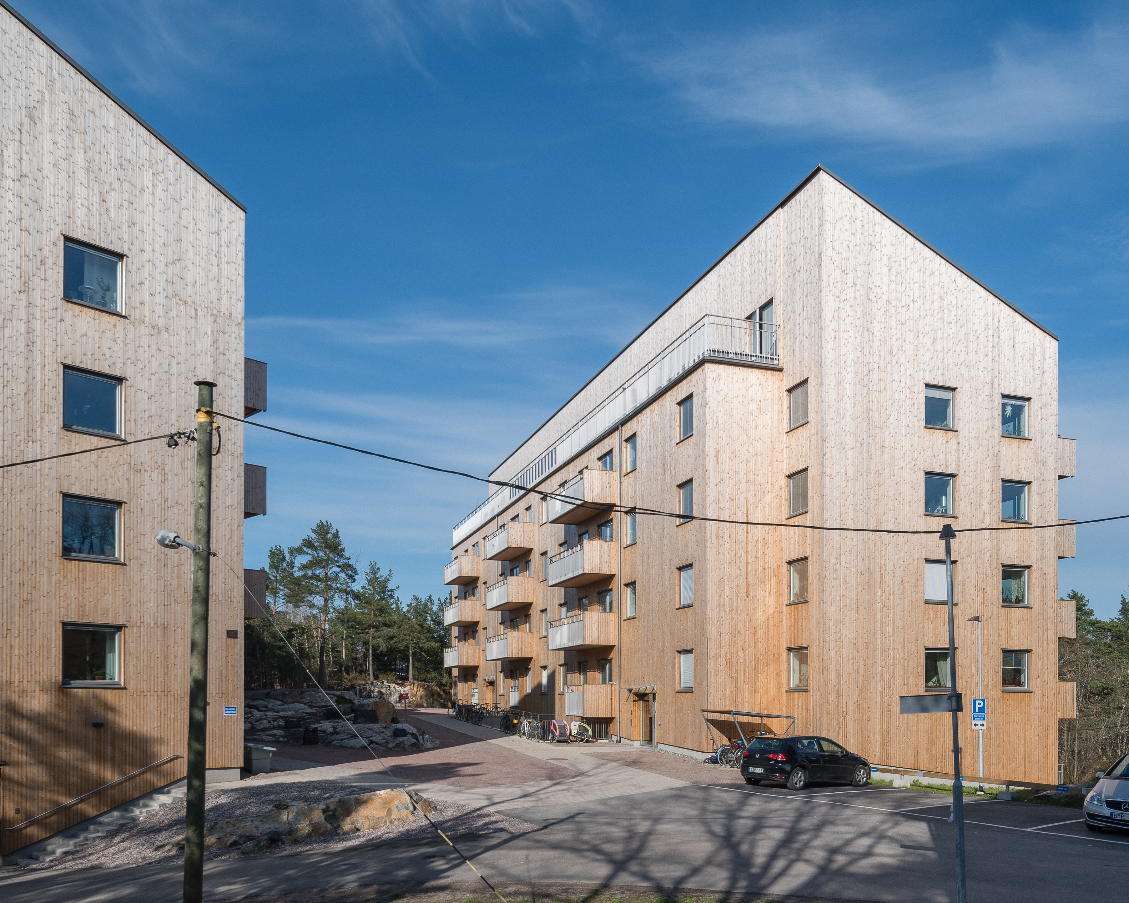 Residential buildings in Kvarteret Taklampan, Björkhagen (Stockholm).